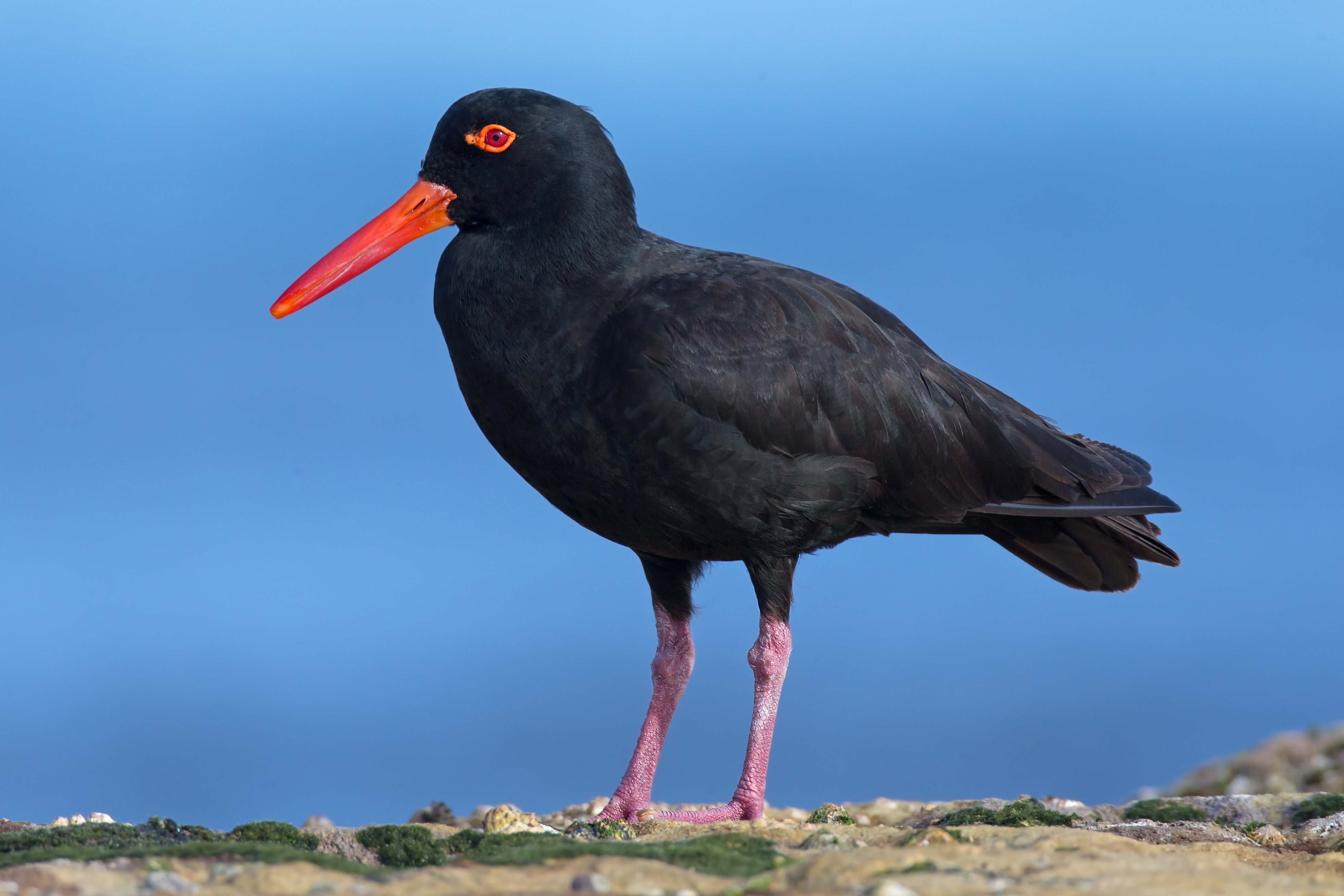 Sooty Oystercatcher (Haematopus fuliginosus), Doughboy Head, New South Wales, Australia